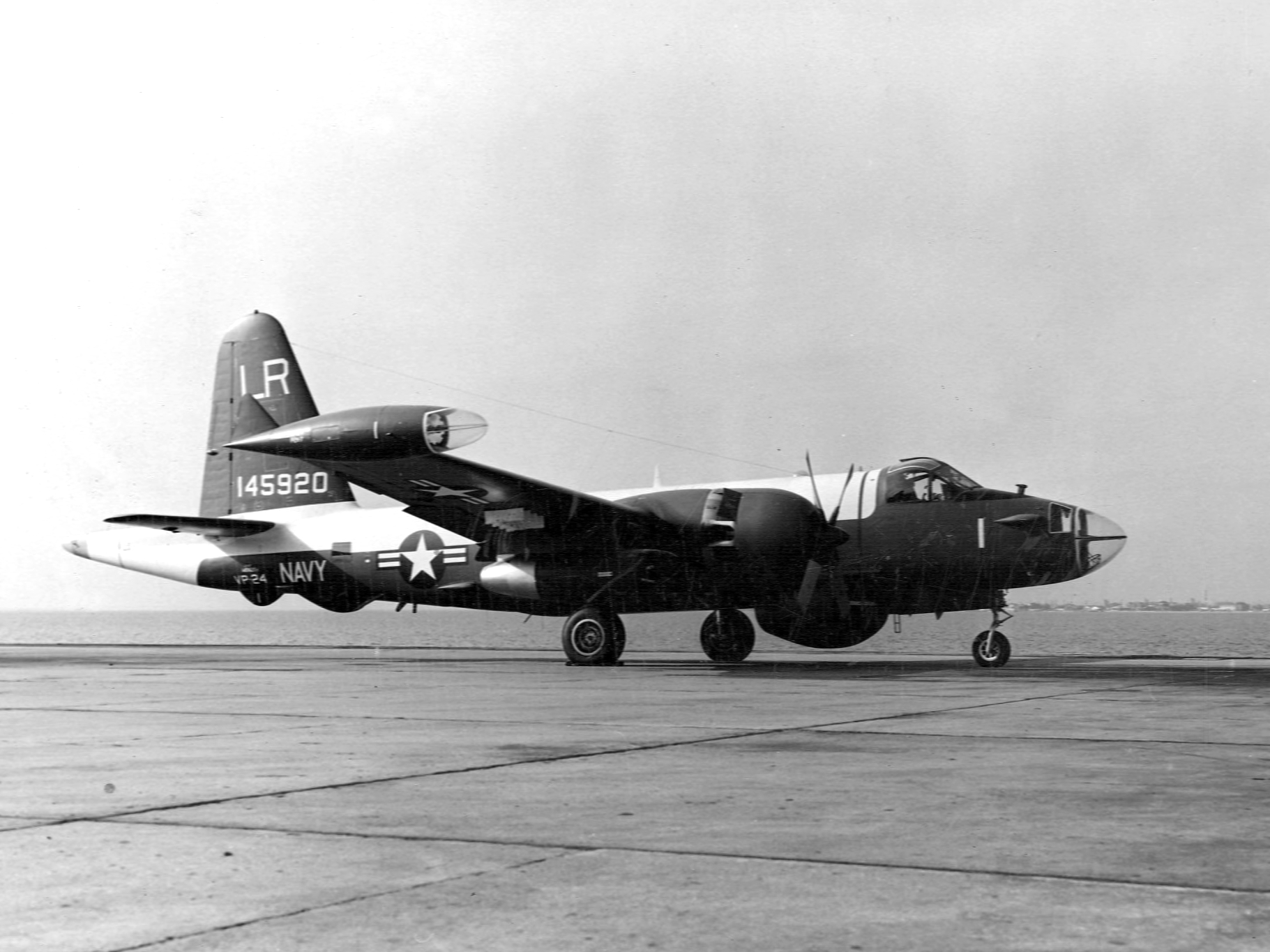 A U.S. Navy Lockheed P2V-7S Neptune (BuNo 145920) of Patrol Squadron VP-24 "Batmen" in the early 1960s.